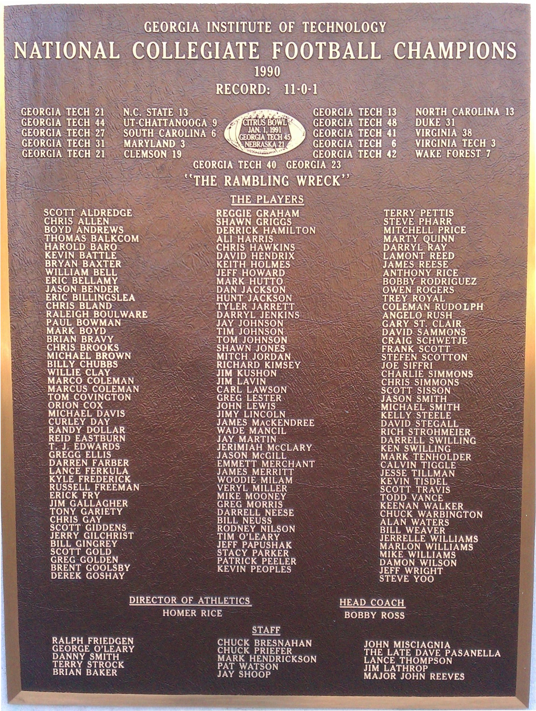 Plaque for 1990 GT Football National Championship (adjusted)